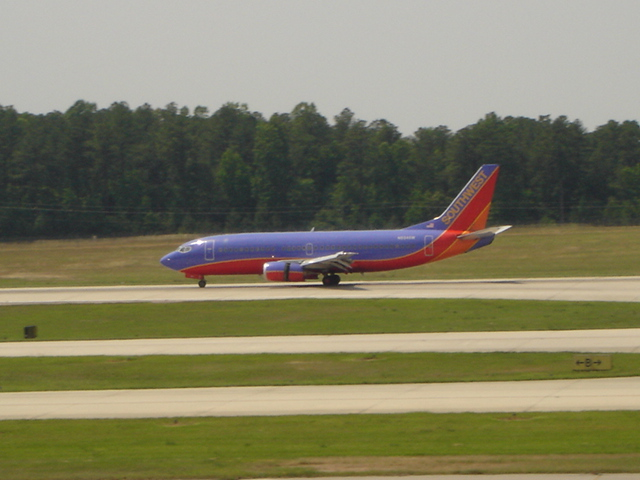 Southwest landing on Runway 23R. Taken by RJ at the RDU Observation Park.